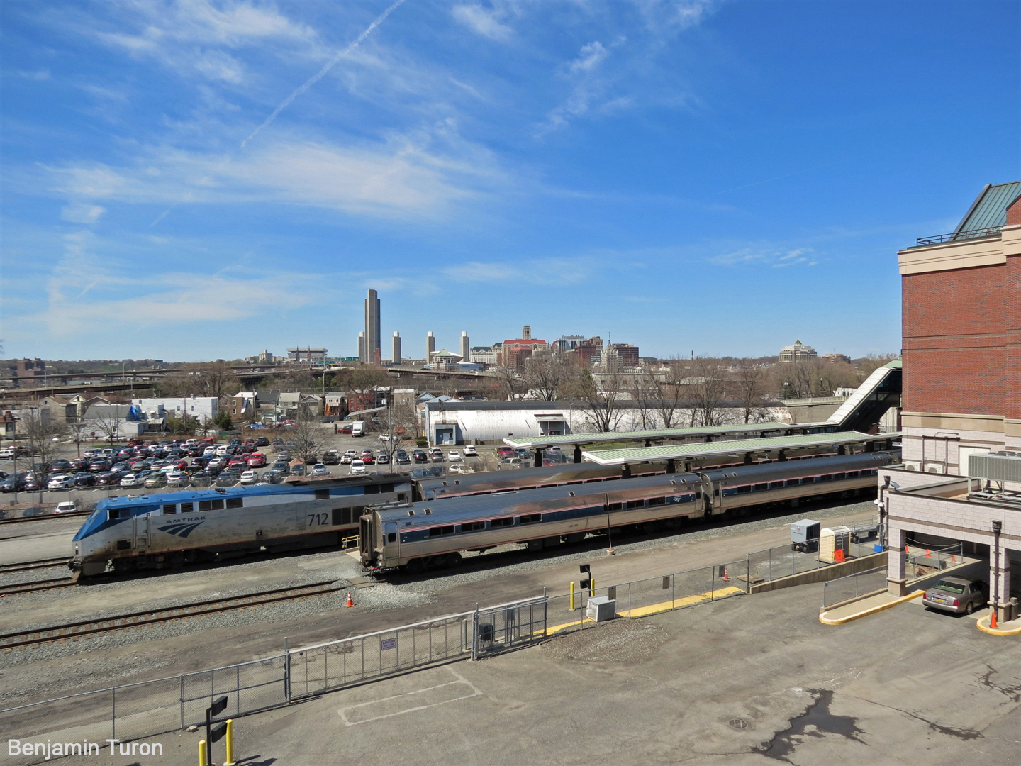 The view from the parking deck over the platforms to downtown Albany.